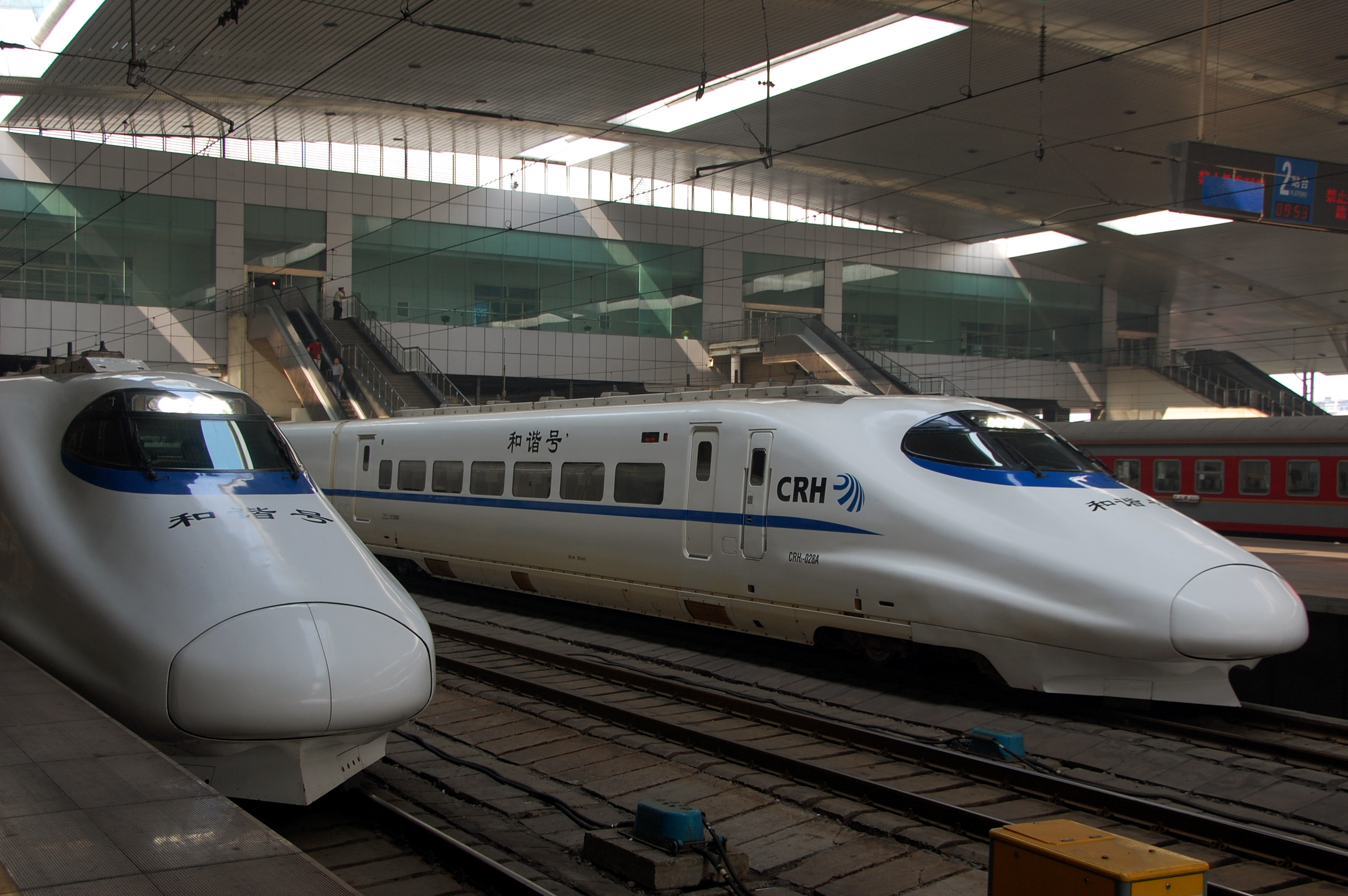 済南駅/济南火车站 China Railways CRH2A at Jinan Railway Station